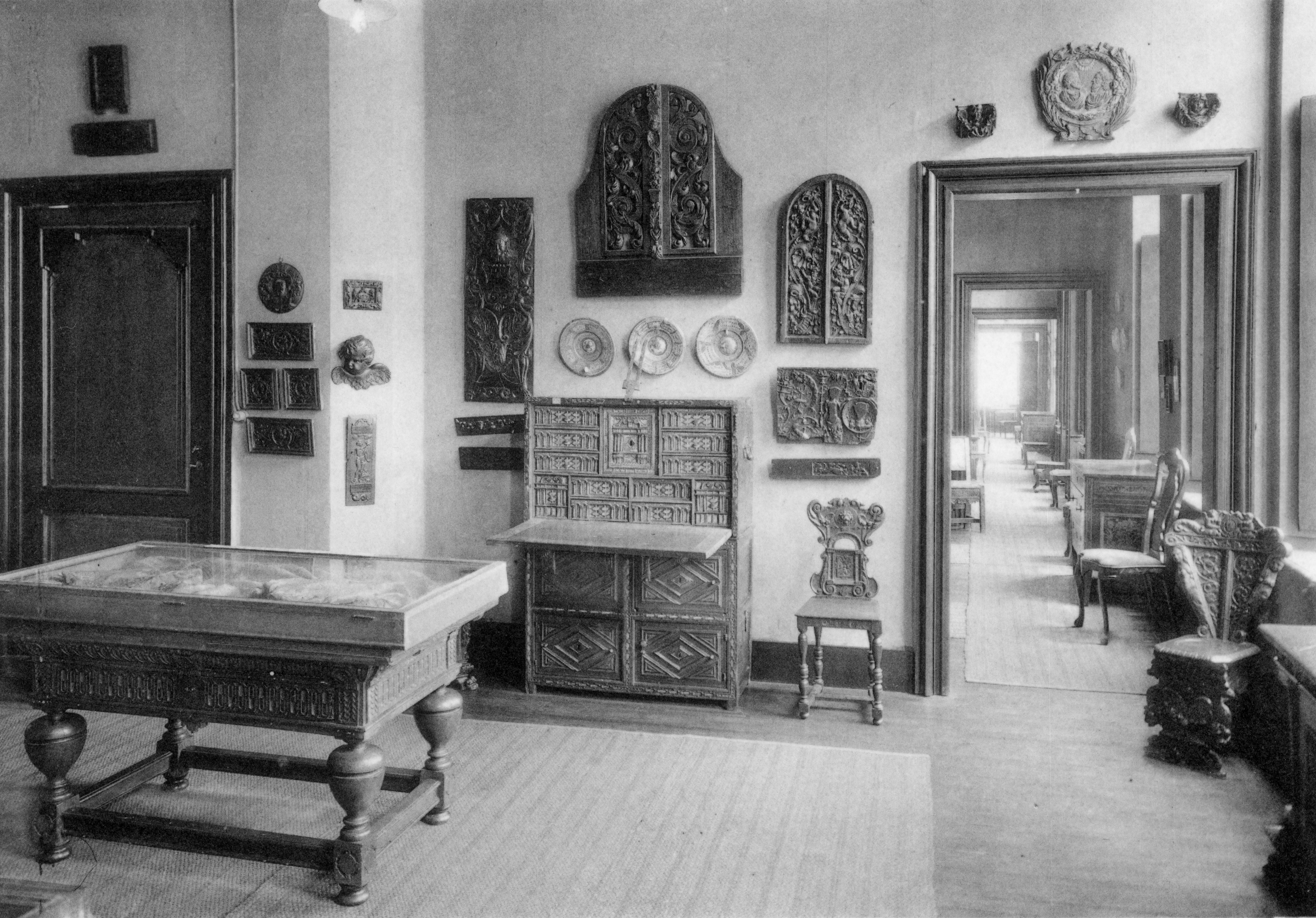 Design museum Gent exhibiting models as the 'Association of Industrial and Decorative Arts'